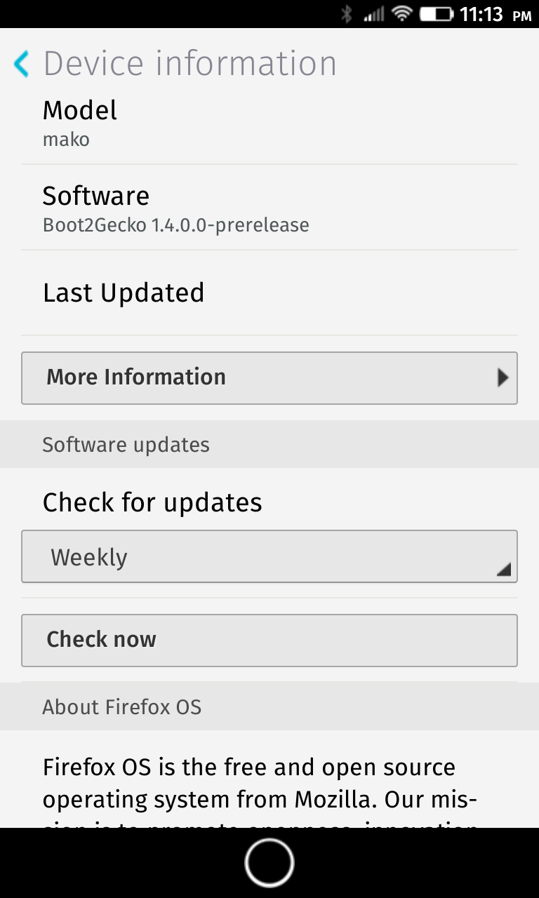 Mozilla's Firefox OS , version Boot2Geck-prerelease on Nexus 4 (LG E960)